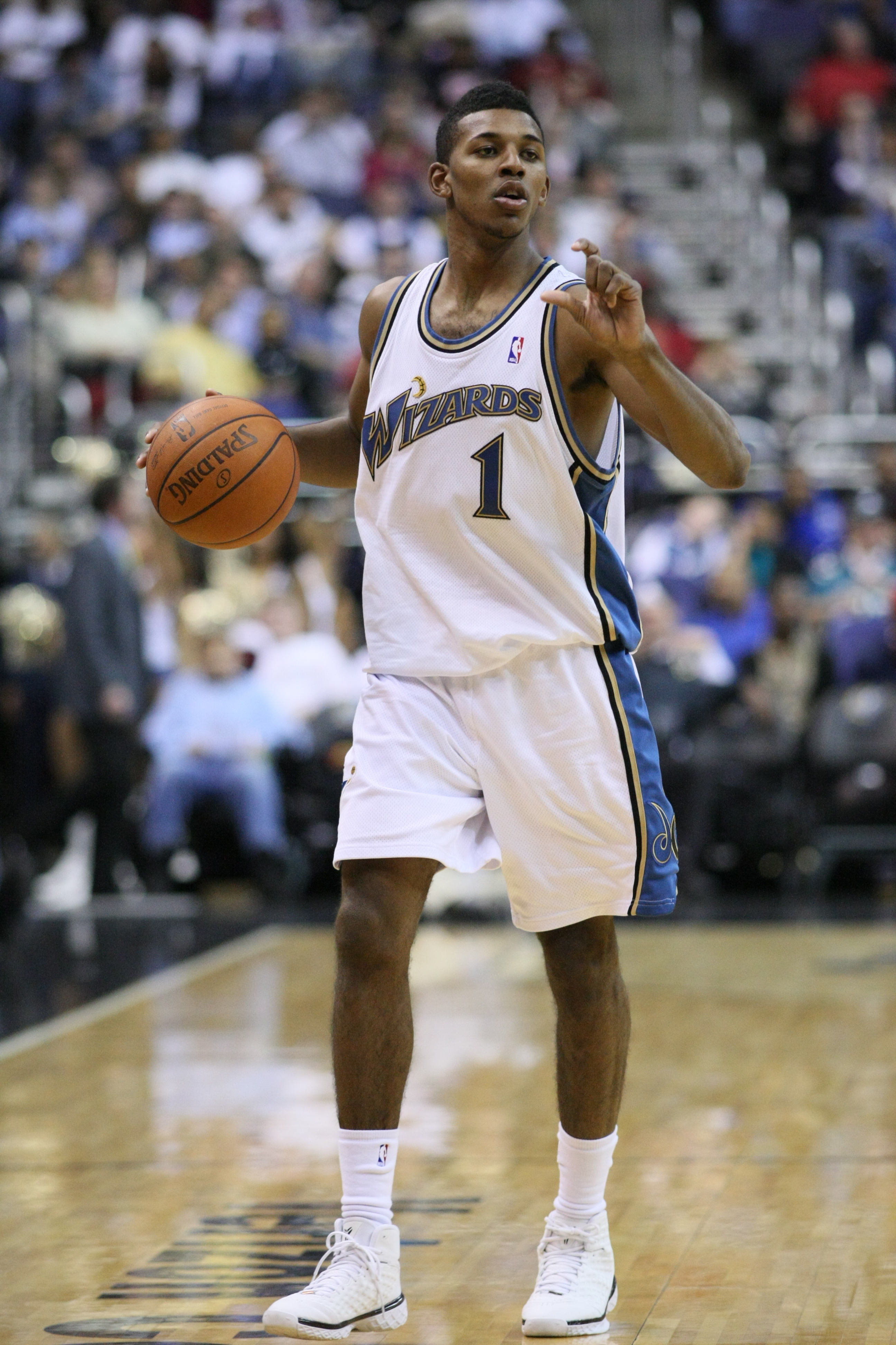 Nick Young at the Washington Wizards v/s Orlando Magic game on 11/27/08